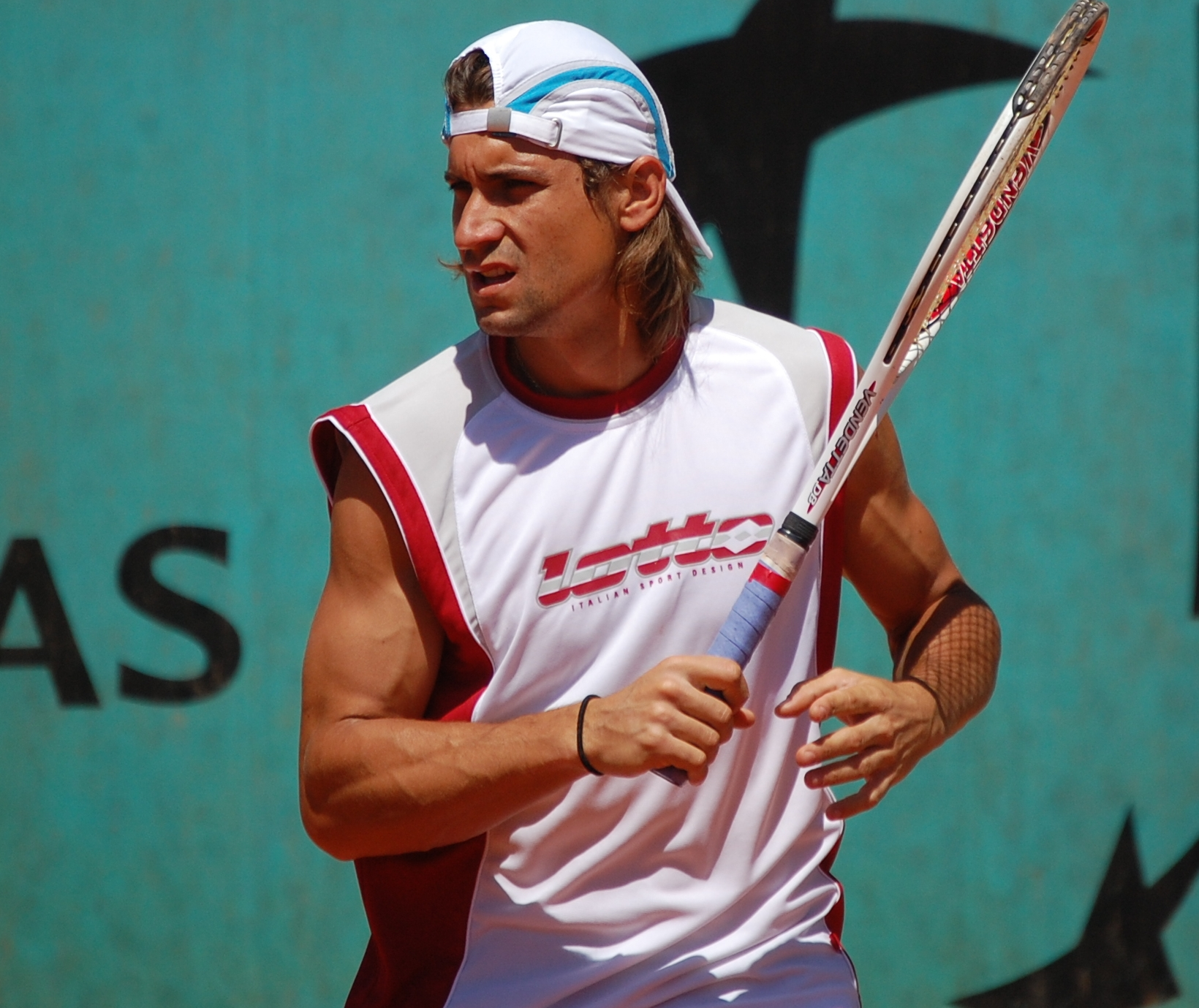 David Ferrer training in Roland Garros, during 2009 French Open